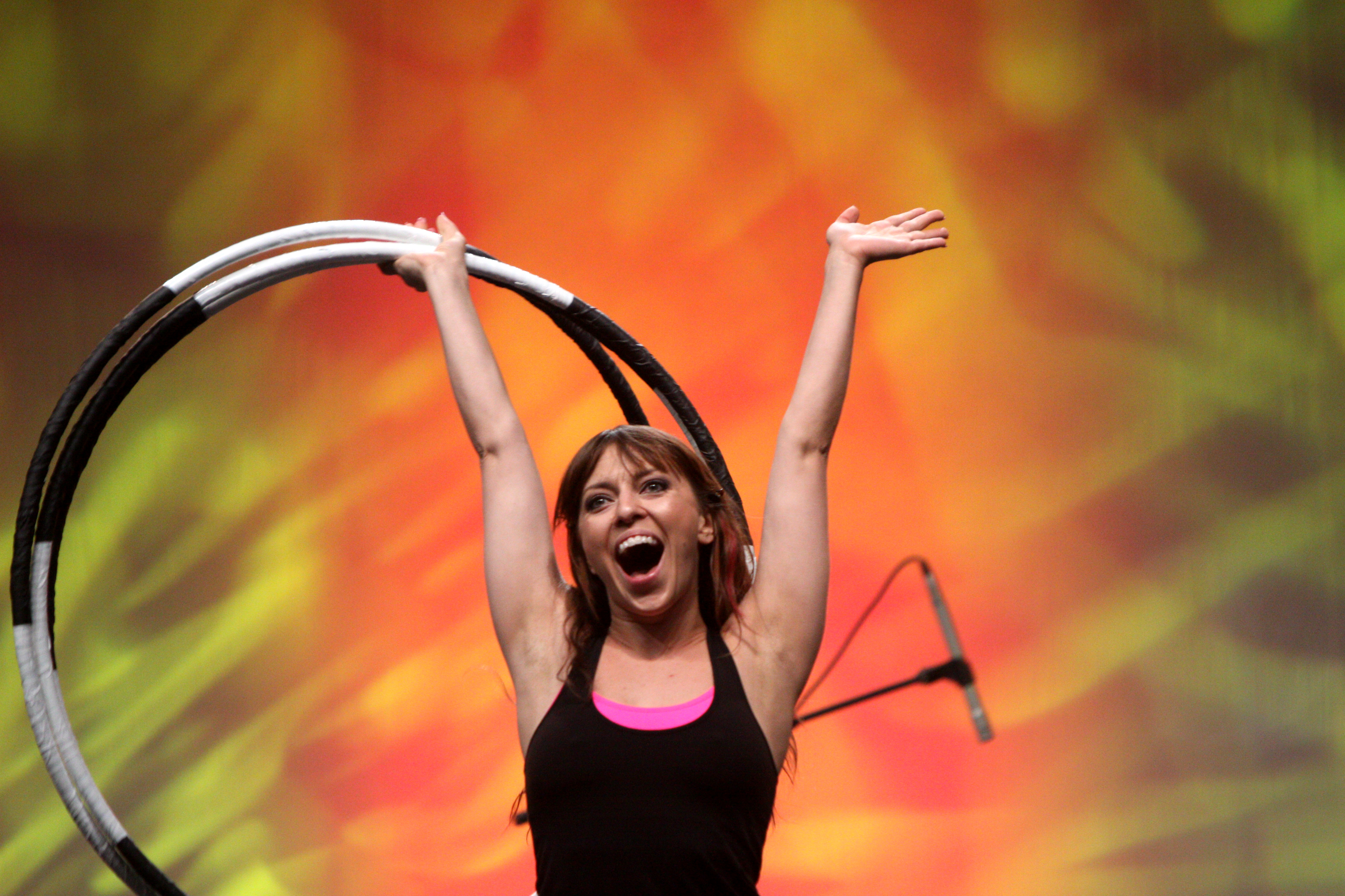 Olga Kay performing at VidCon 2012 at the Anaheim Convention Center in Anaheim, California.